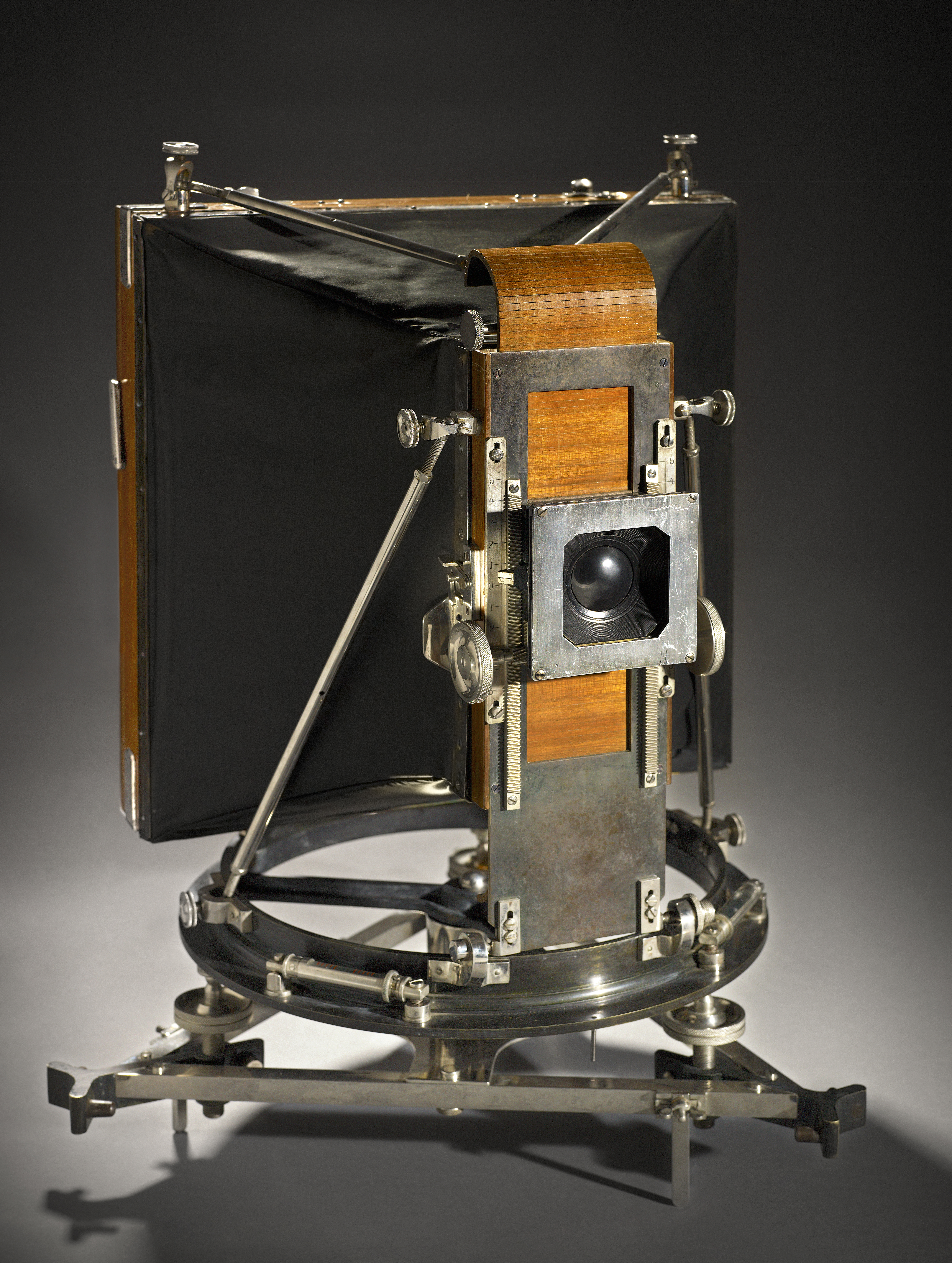 Camera conceived and built by Albrecht Meydenbauer, German engineer, creator of the architectural photogrammetry